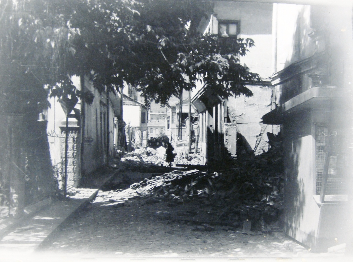 1963 Skopje earthquake: Bunjakovec This media file is produced by Wikipedian in Residence in Category:Wikipedian in Residence at DARM in 2016.